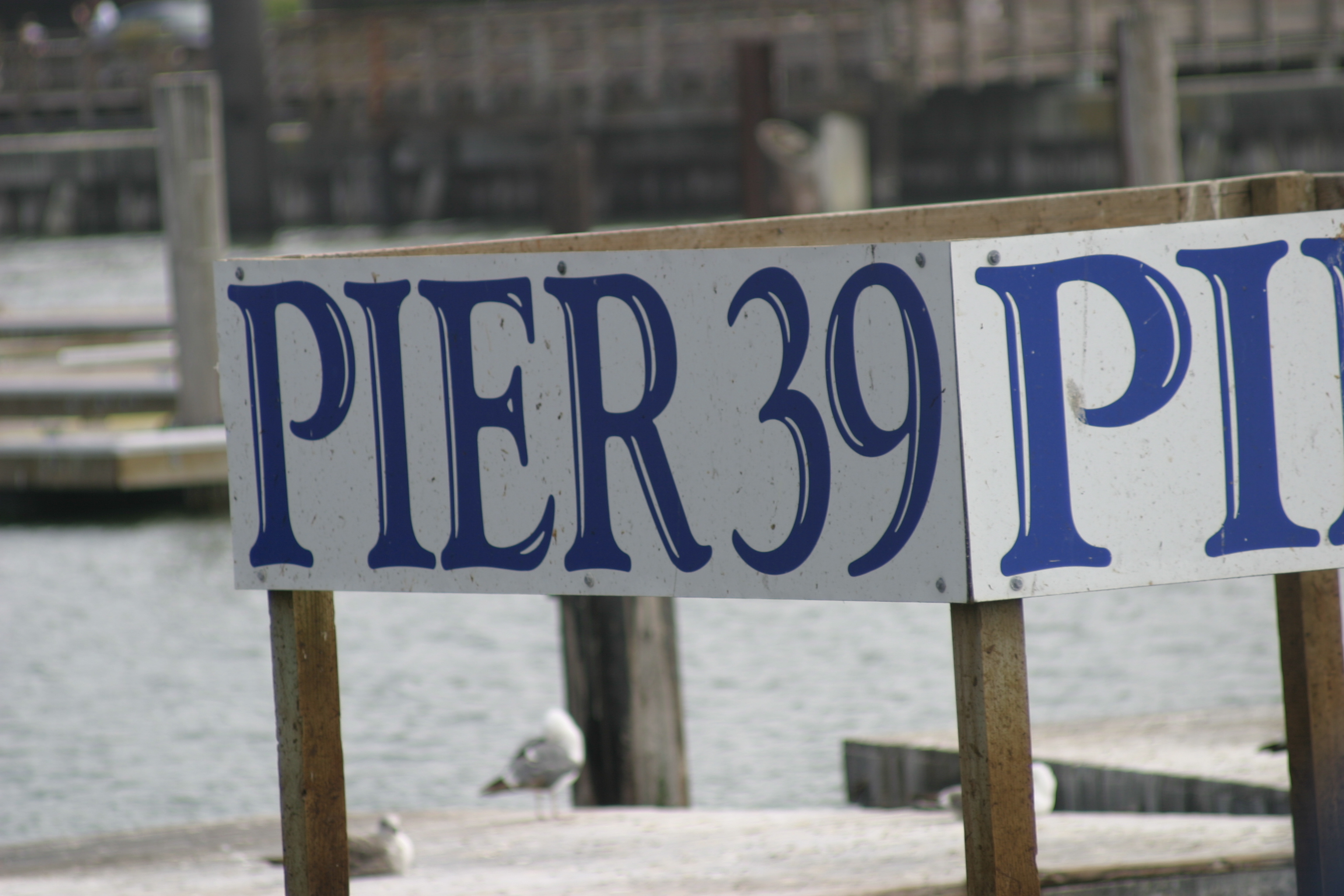 the Pier 39, in San Francisco, CA